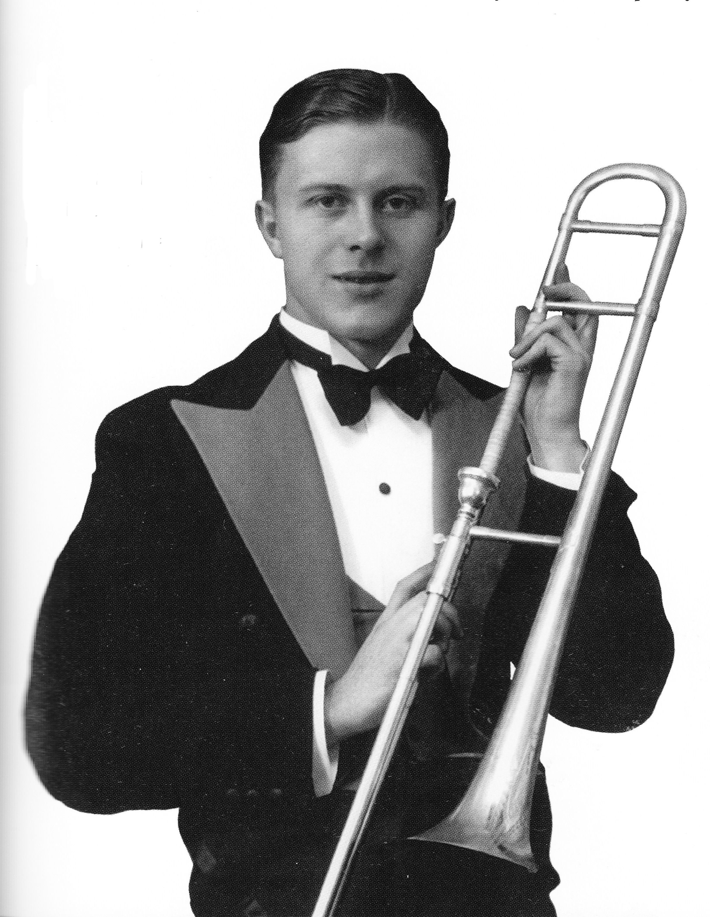 Martti Ounamo finnish trombonists